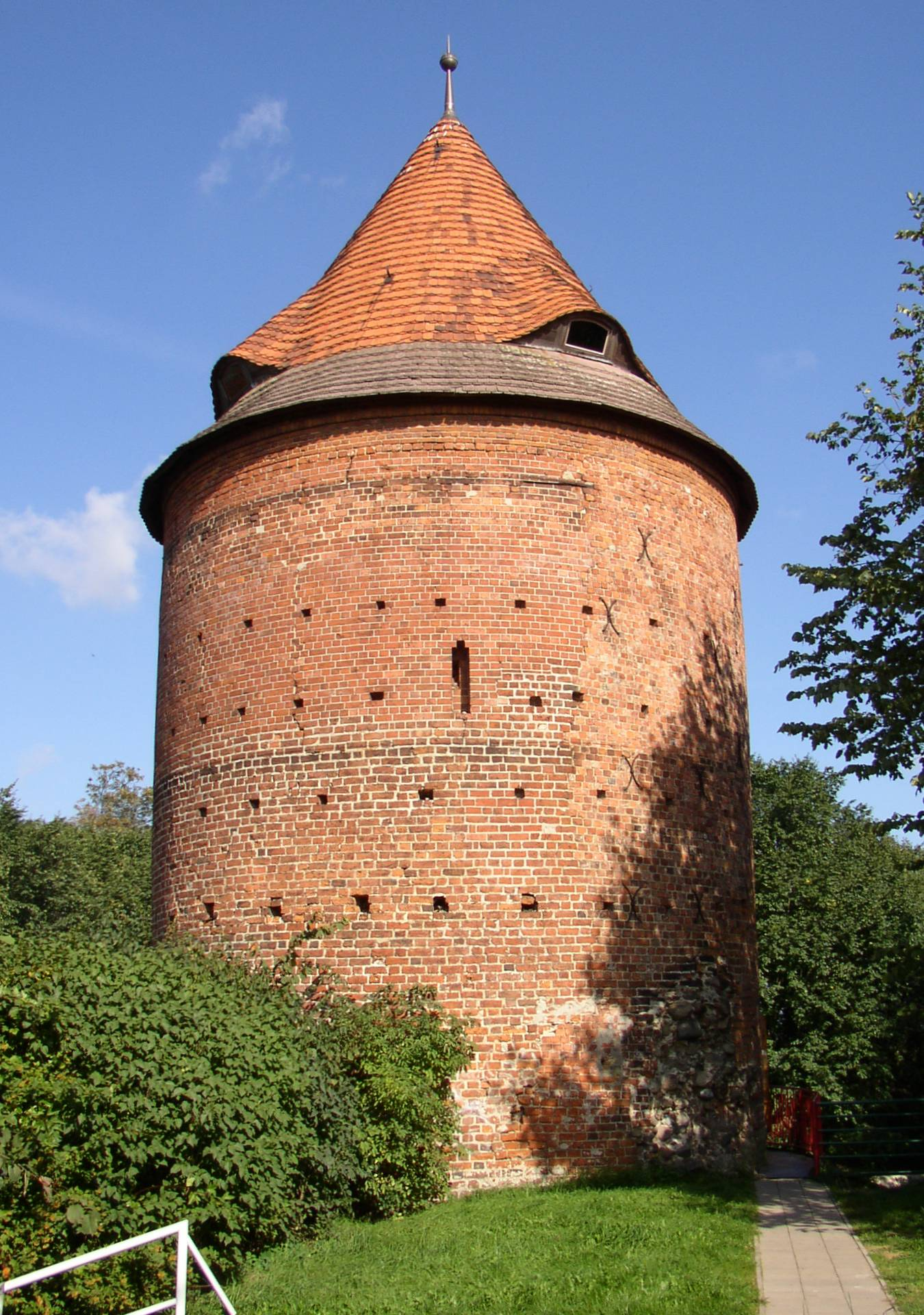 Tower of former castle in Plau am See in Mecklenburg-Western Pomerania, Germany